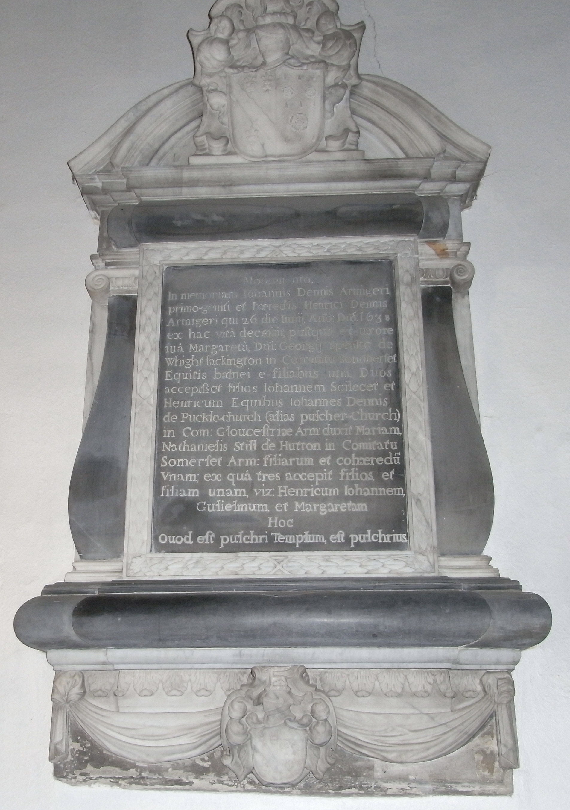 The Dennis family memorial tablet in the north aisle of the parish church of Saint Thomas à Becket, Pucklechurch, South Gloucestershire, England, UK. It was erected after 1660. The Latin inscription on the tablet reads as follows: Monumento In memoriam Johannis Dennis Armigeri, primo-geniti et haeredis Henrici Dennis Armigeri qui 26 die Junii Anno Domini 1638 ex hac vita decessit postquam ex uxore sua Margareta Domini Georgii Speake de Whight-lackington in Comitatu Sommerset Equitis balnei e filiabus una, Duos accepisset filios Johannem Scilecet et Henricum Equibus. Johannes Dennis de Puckle-church (alias pulcher-Church) in Comitatu Gloucestriae Armiger duxit Mariam, Nathanielis Still de Hutton in Comitatu Somerset Armigeris filiarum et cohaeredum Unam; ex qua tres accepit filios, et filiam unam, viz: Henricum, Johannem, Gulielmum et Margaretam. Hoc Quod est pulchri Templum, est pulchrius. It may be translated into English thus: Monument In memory of John Dennis Esquire, first-born and heir of Henry Dennis Esquire who on the 26th day of June in the year of Our Lord 1638 departed from this life after he had received from his wife Margaret, one out of the daughters of George Speke Lord of Whight-lackington in the county of Somerset, Knight of the Bath, two sons, that is to say John and Henry knights [?]. John Dennis of Puckle-church (otherwise pulcher- [i.e., beautiful] Church in the county of Gloucester, Esquire, married Mary, one of the daughters and co-heiresses of Nathaniel Still of Hutton in the county of Somerset, Esquire; from whom he received three sons and one daughter, that is to say: Henry, John, William, and Margaret. By this monument what is a beautiful temple is become more beautiful.